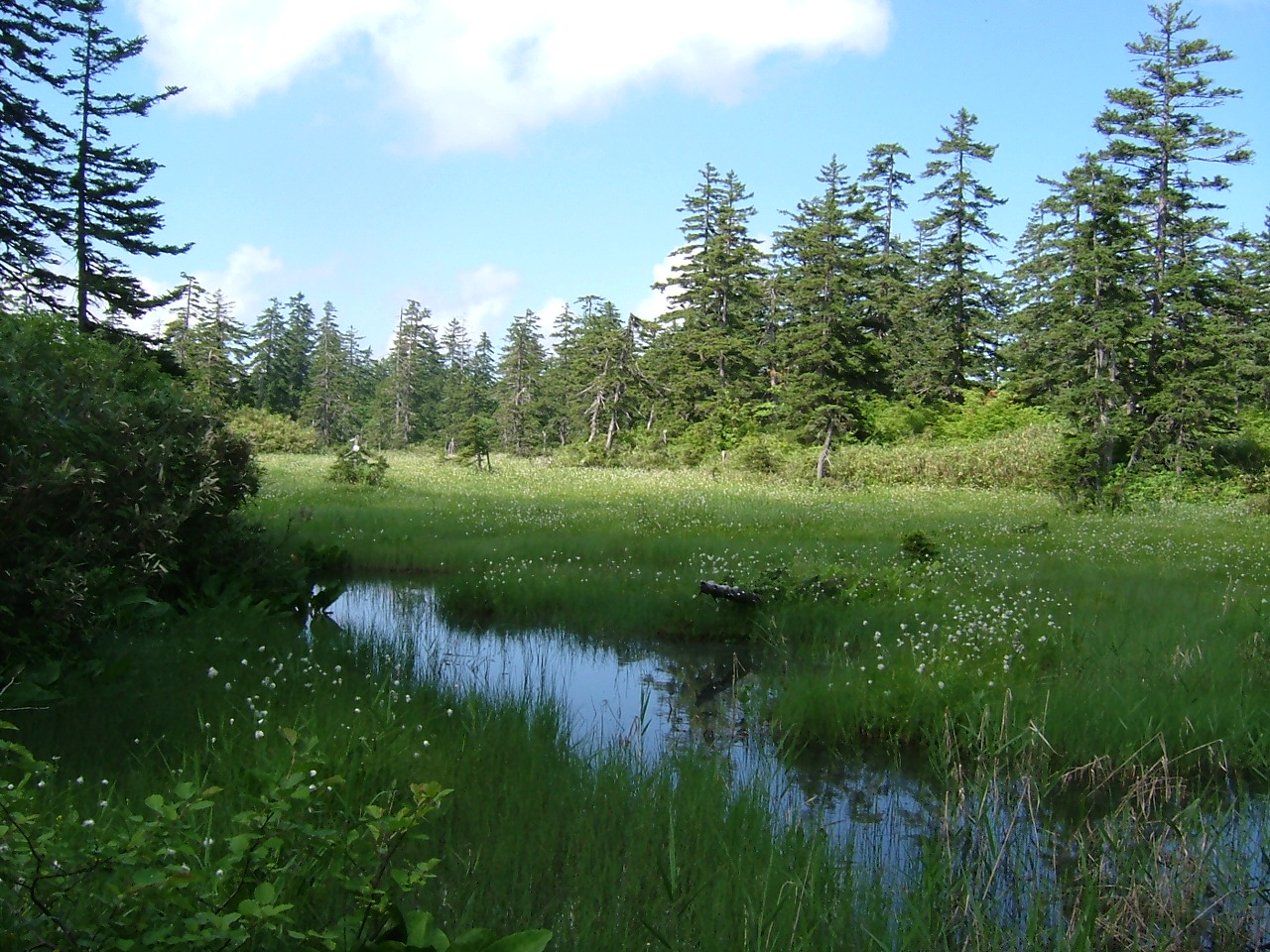 A photo take from a hiking route in Asahidake Onsen, Daisetsuzan National Park, Hokkaido, Japan. I took this with a digital camera in August 2005.